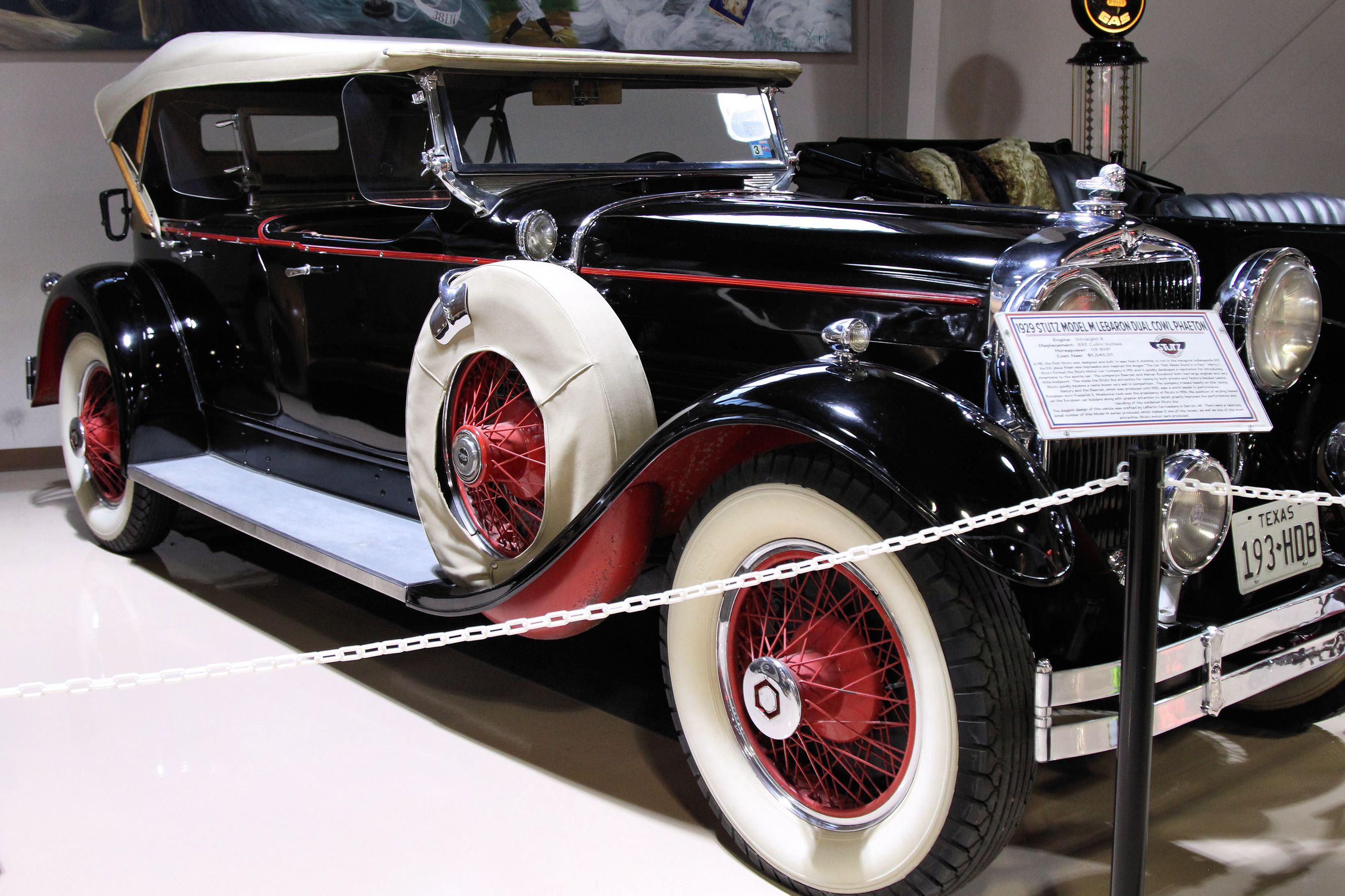 A 1929 Stutz Model M LeBaron Dual Cowl Phaeton at Dick's Classic Car Garage Museum, San Marcos, Texas, United States.